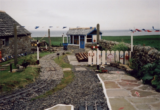 Sanday Light Railway. This 7.5" gauge railway is billed as Britain's most northerly passenger carrying railway. This suggests another railway further north but I have no idea where if this is the case. Sullom Voe perhaps?